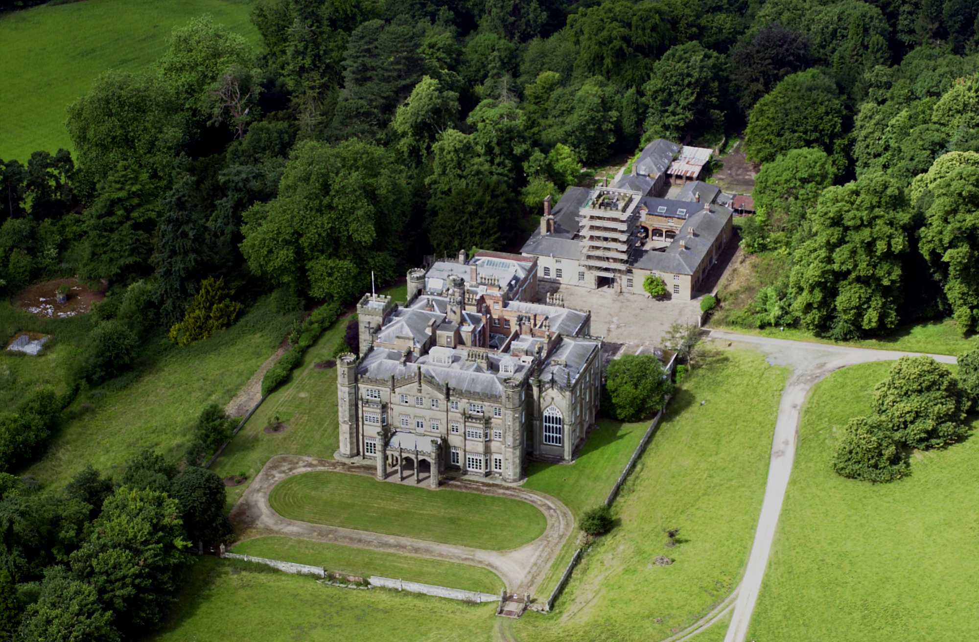 Panoramic overview of the restoration of Apley Hall